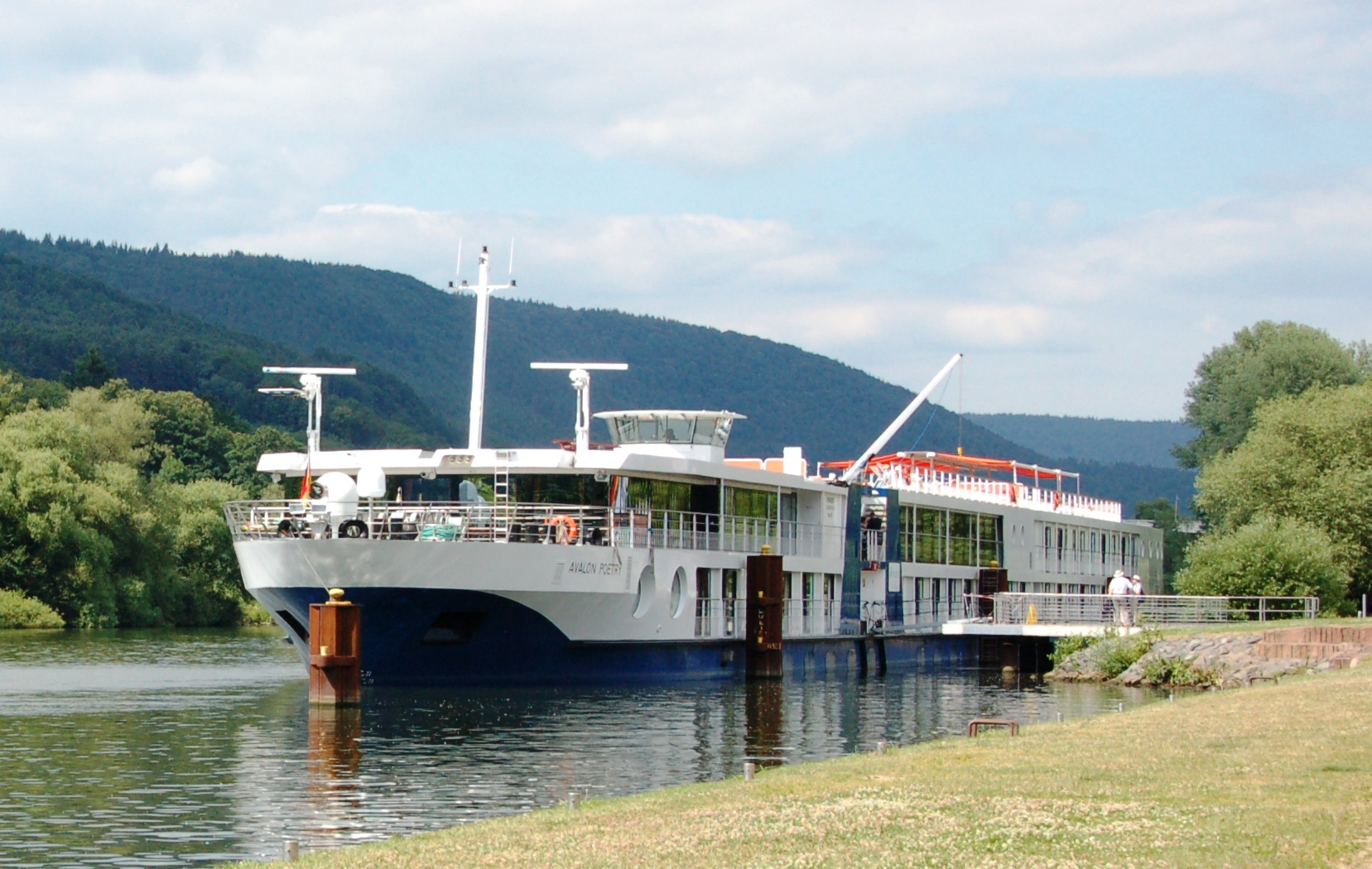 The Avalon Poetry river cruise ship on the Main in Miltenberg, Bavaria, Germany.